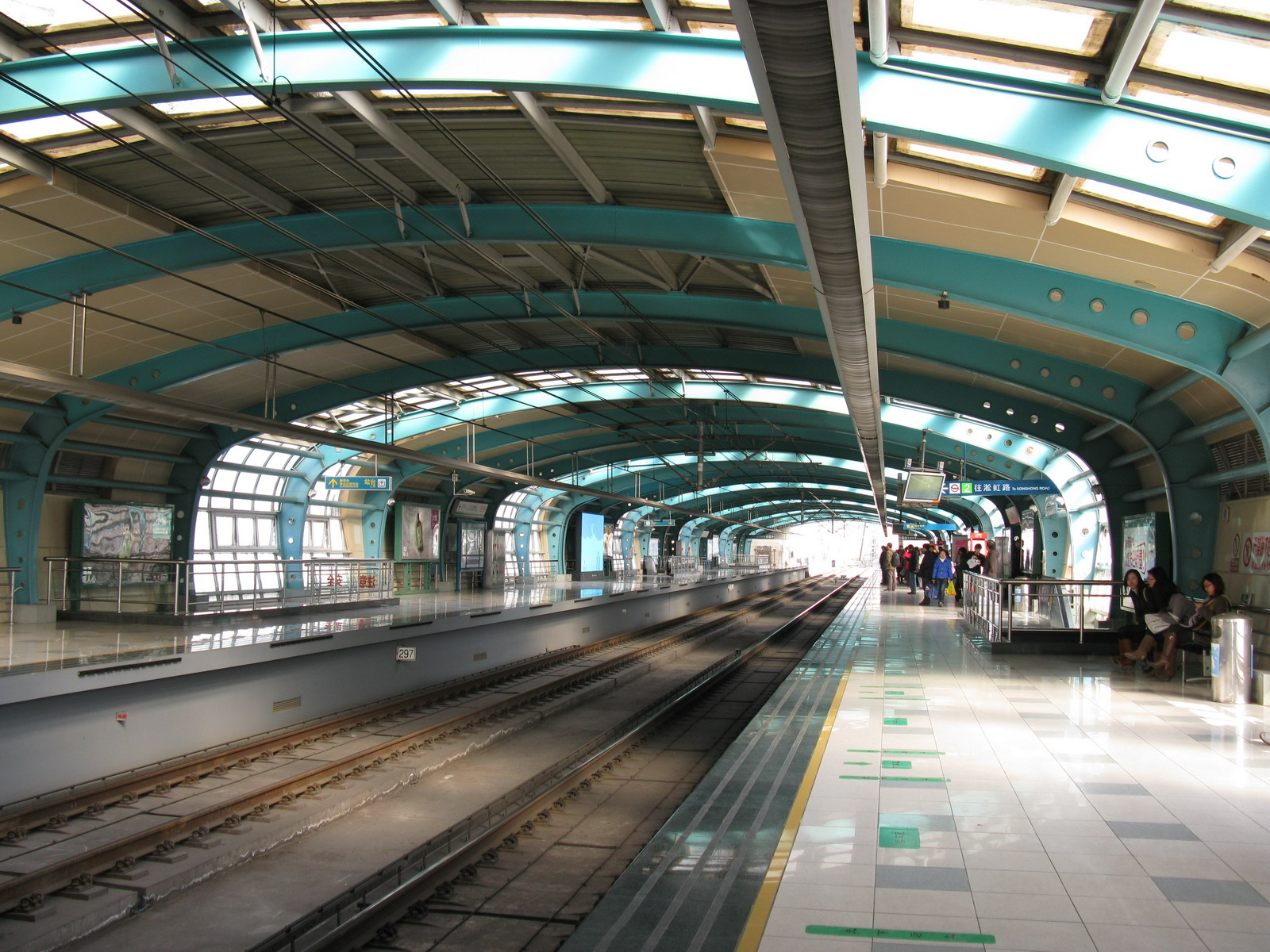 張江高科站 2号线月台 Line 2 Platform of Zhangjiang High Technology Park Station